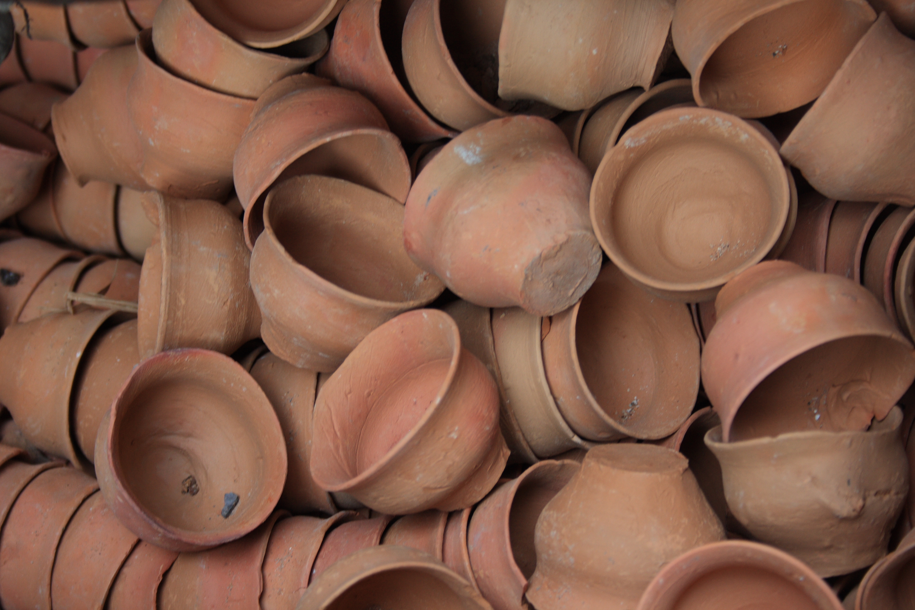 Tea cups made of clay. Usually they are used only once and thrown away later - but they are kind of nature-degradable.